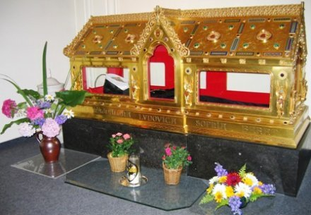 St. Sophie Barat's body at Mad. Sophie Barat Center, Brussels (before 2009)